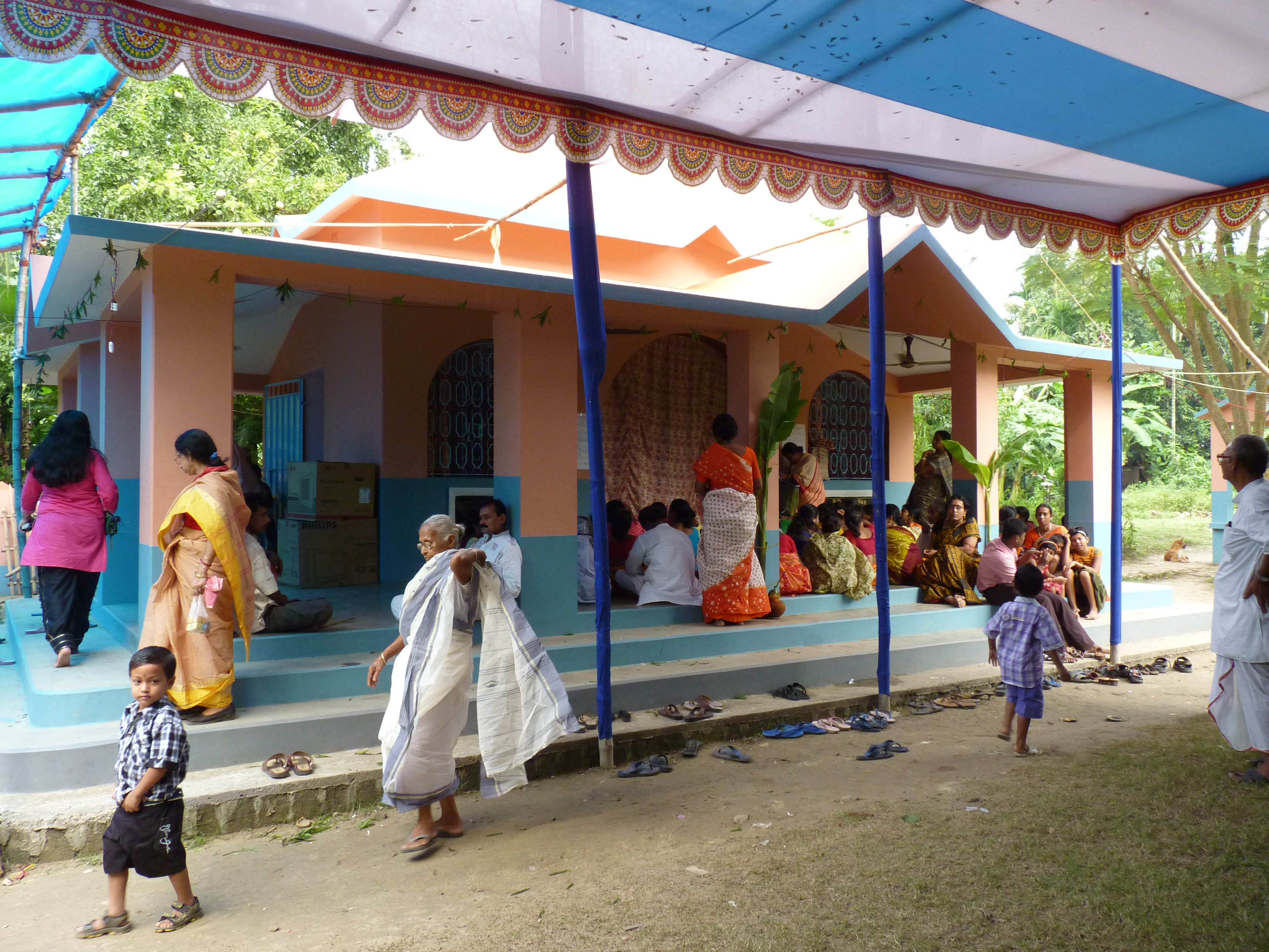 Buroma Mandir during Durga puja of Simurali (PIN code: 741248) or Shimurali village is under Kalyani constituency of West Bengal, India. It has railway station, Simurali (code: SMX) in between Madanpur (code: MPJ) and Palpara stations in Sealdah (code: SDAH) main line.